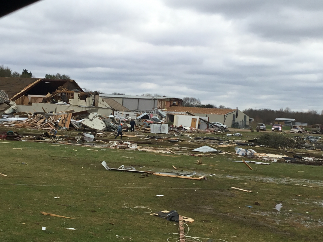 EF3 damage to the Hope Baptist School in Alexandria, Louisiana.